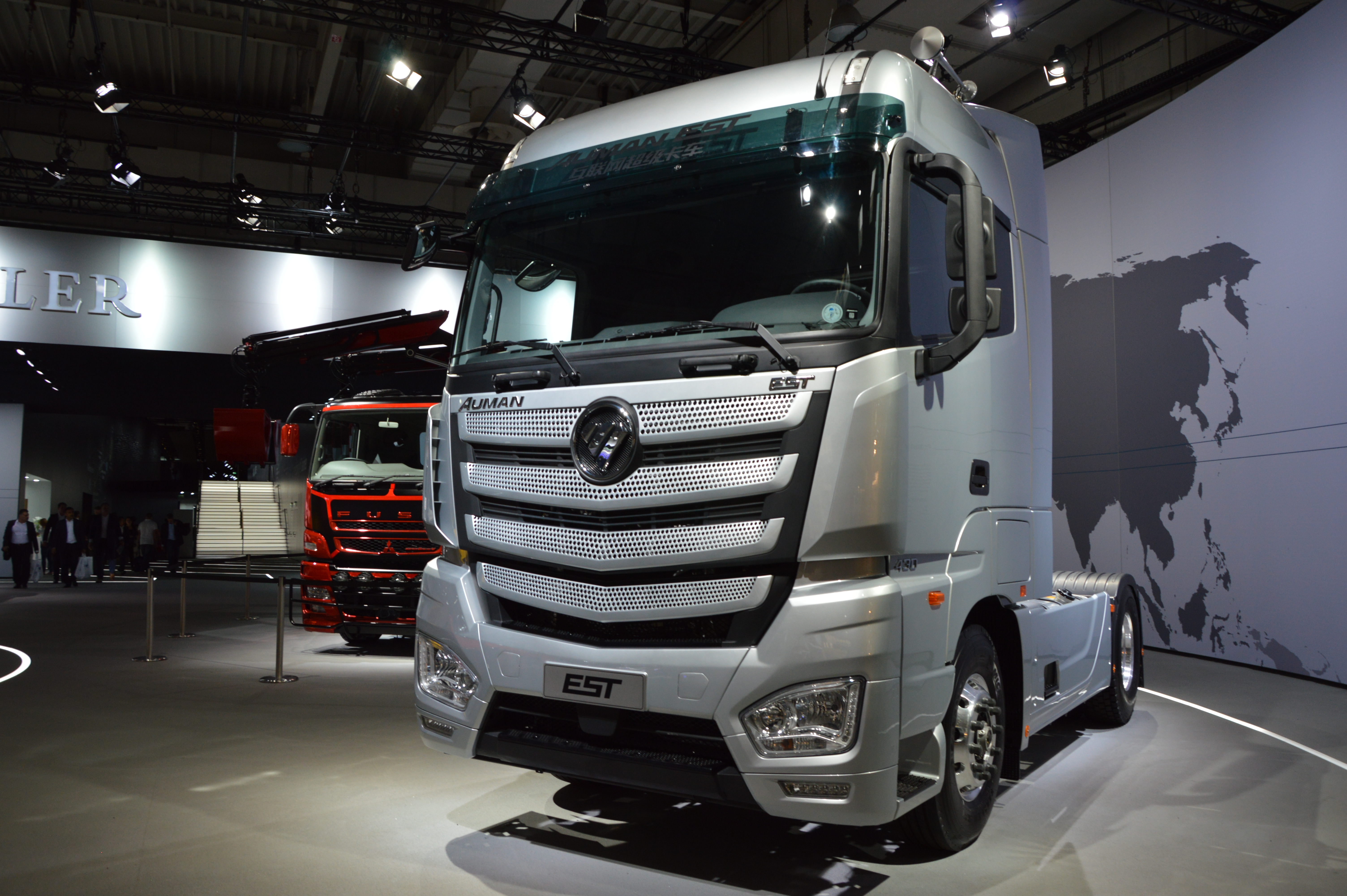 Auman EST (Energy Super Truck). Engine: OM 457 (428 hp) Euro 5. Produced by Beijing Foton Daimler Automotive (50:50 Joint venture between Daimler and Foton).